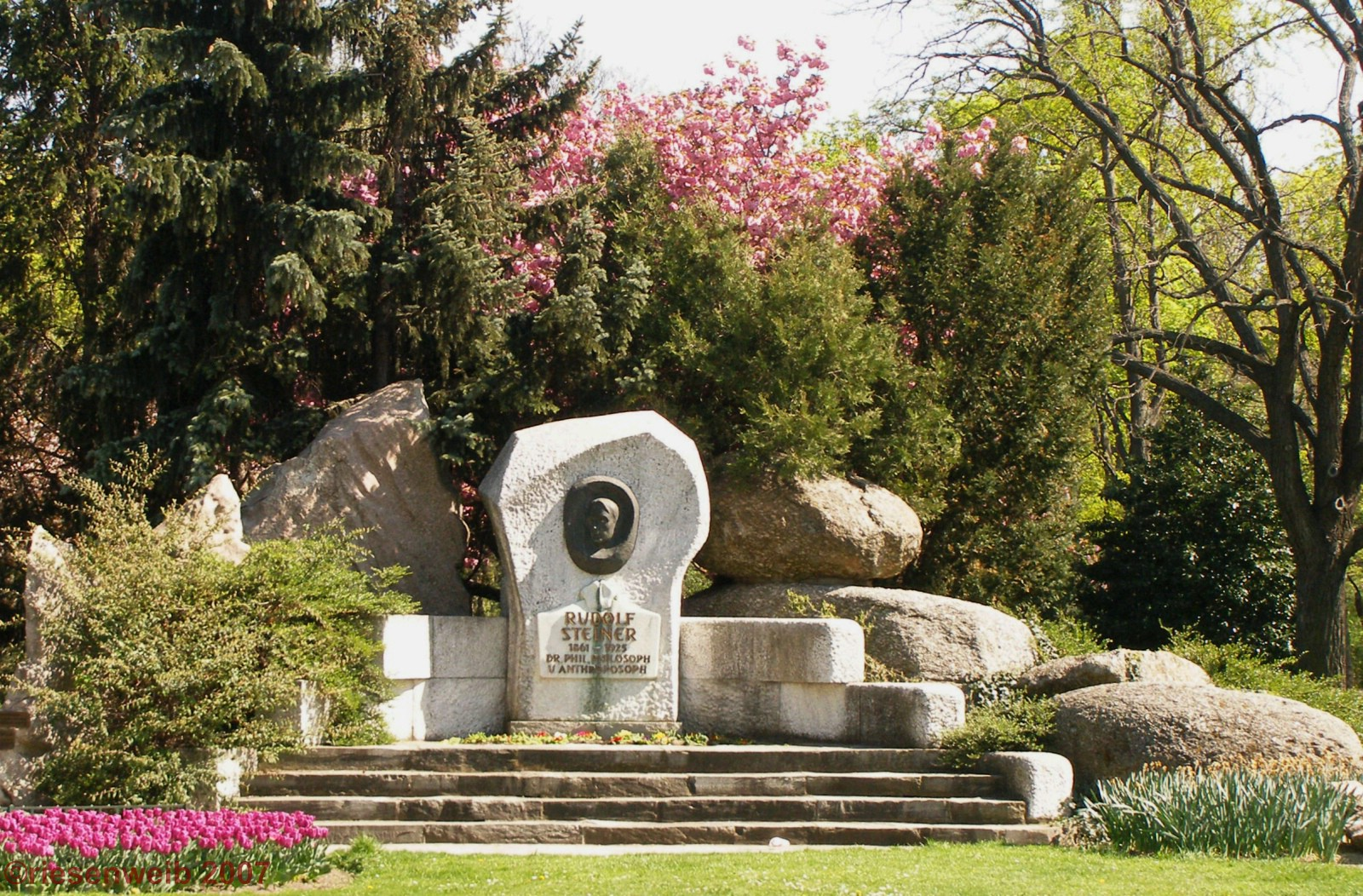 Vienna, Monument for Rudolf Steiner, "anthroposopher"